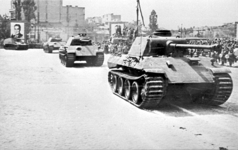 anther tanks during the Romanian National Day military parade in 1946.